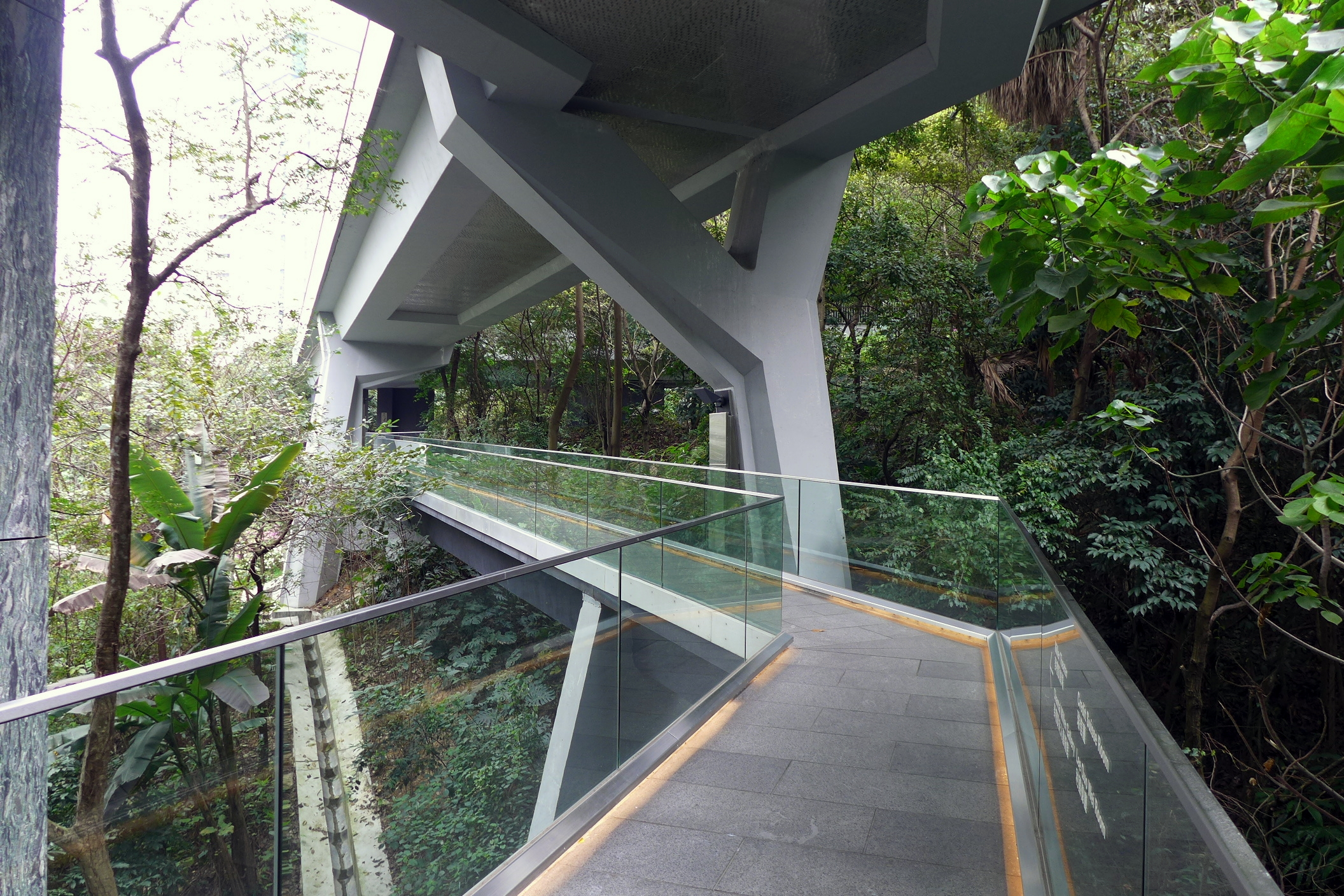 Asia Socitety Fruit Bats Bridge